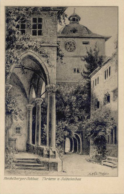 Copper engraving of the Heidelberg castle